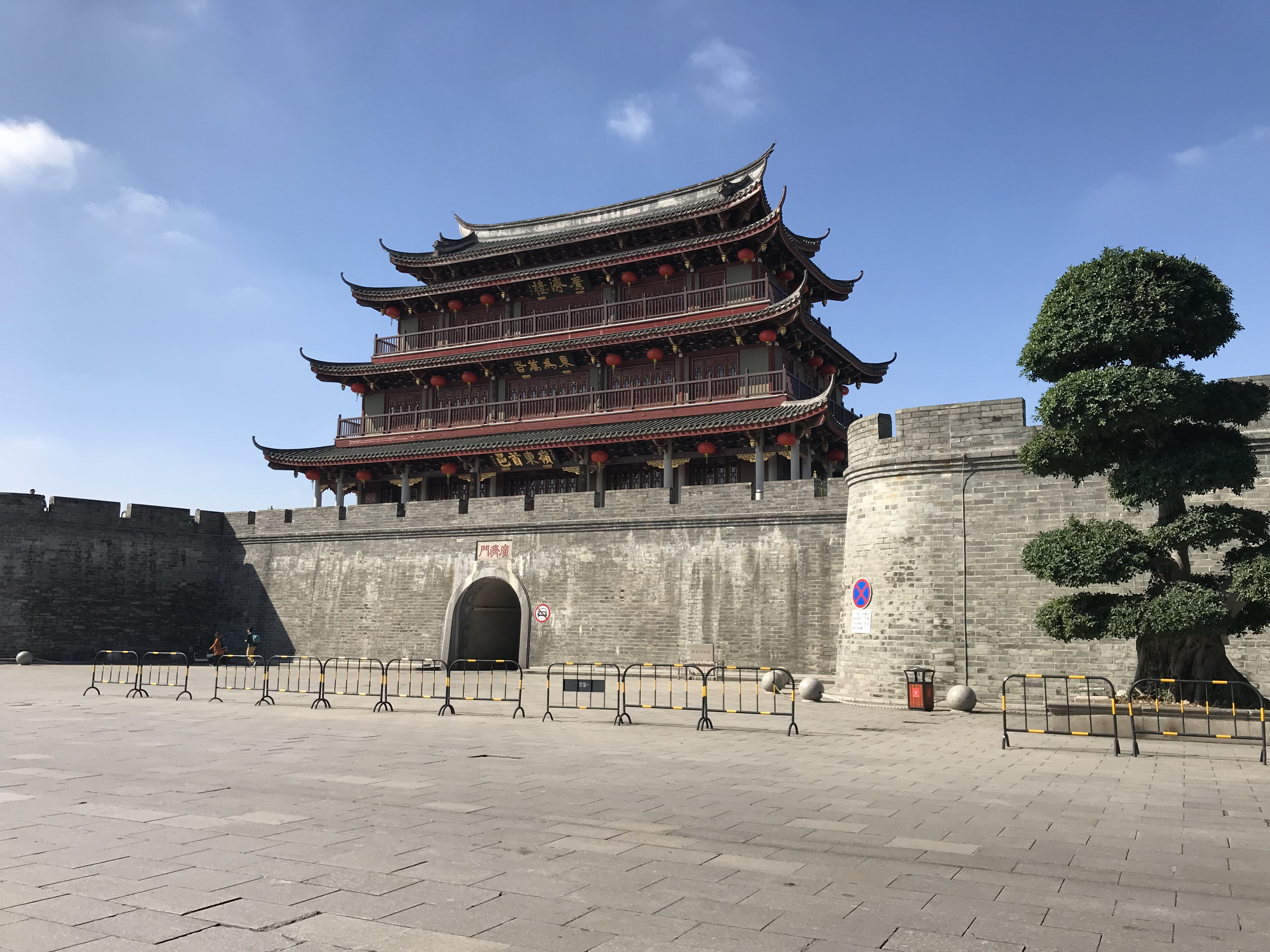 Guangji Gate of Chaozhou.